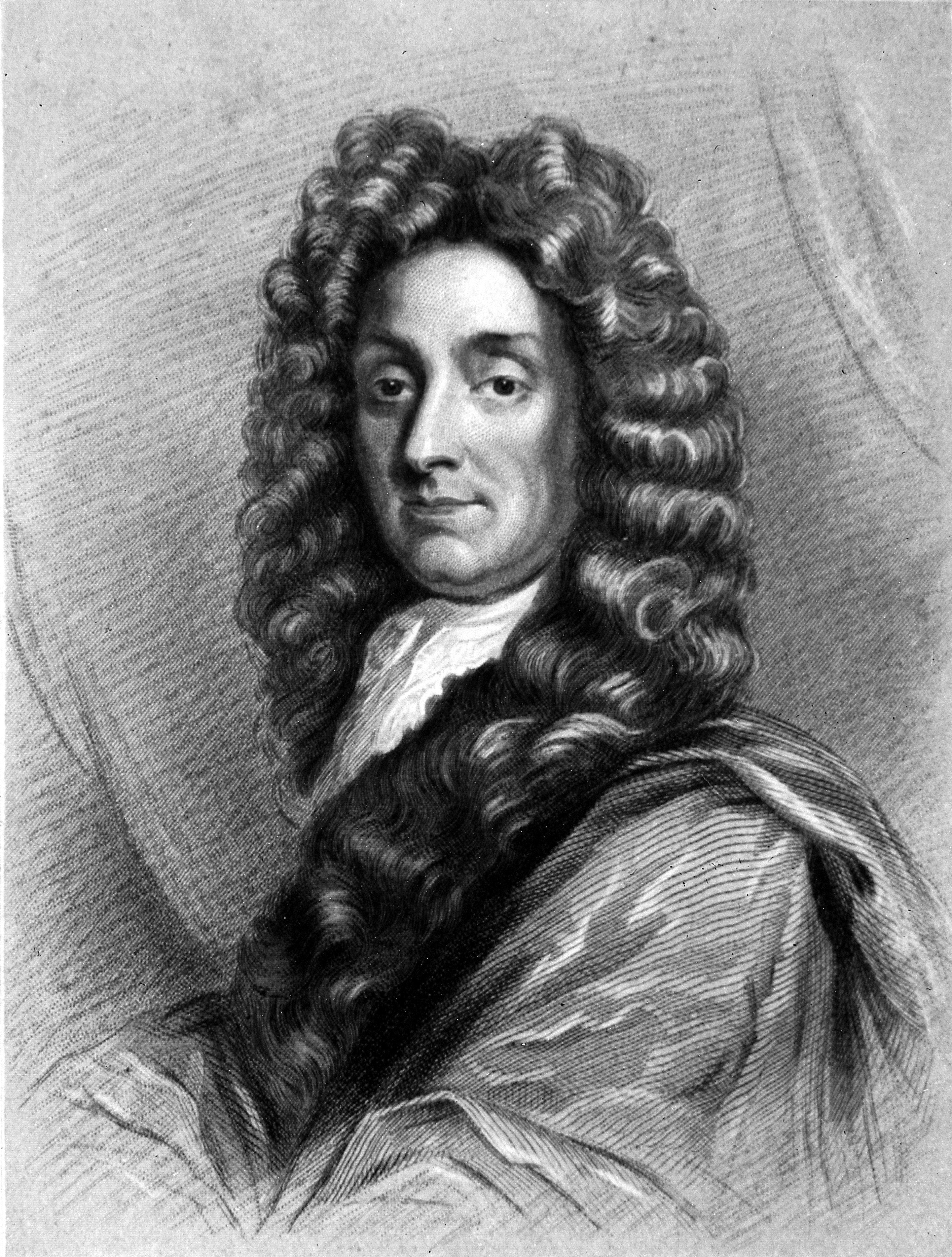 Original Wellcome description did not apply to this image, please see history for more information.